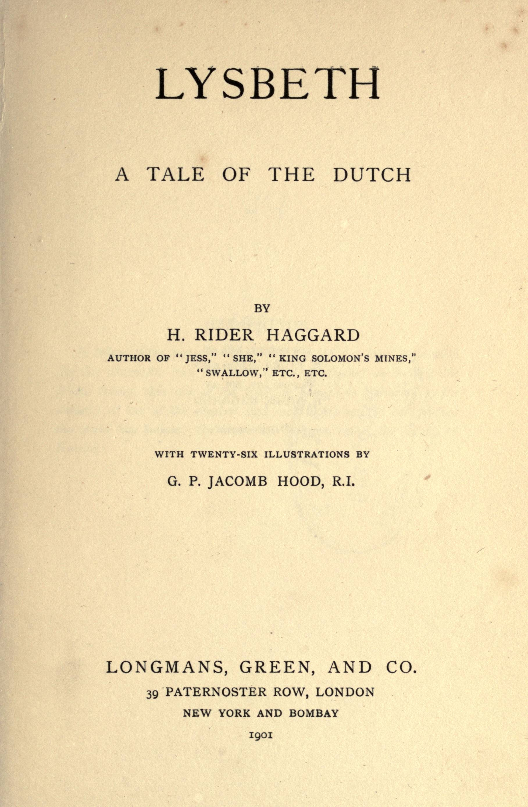 First page of H.R. Haggard's novel Lysbeth (1901_